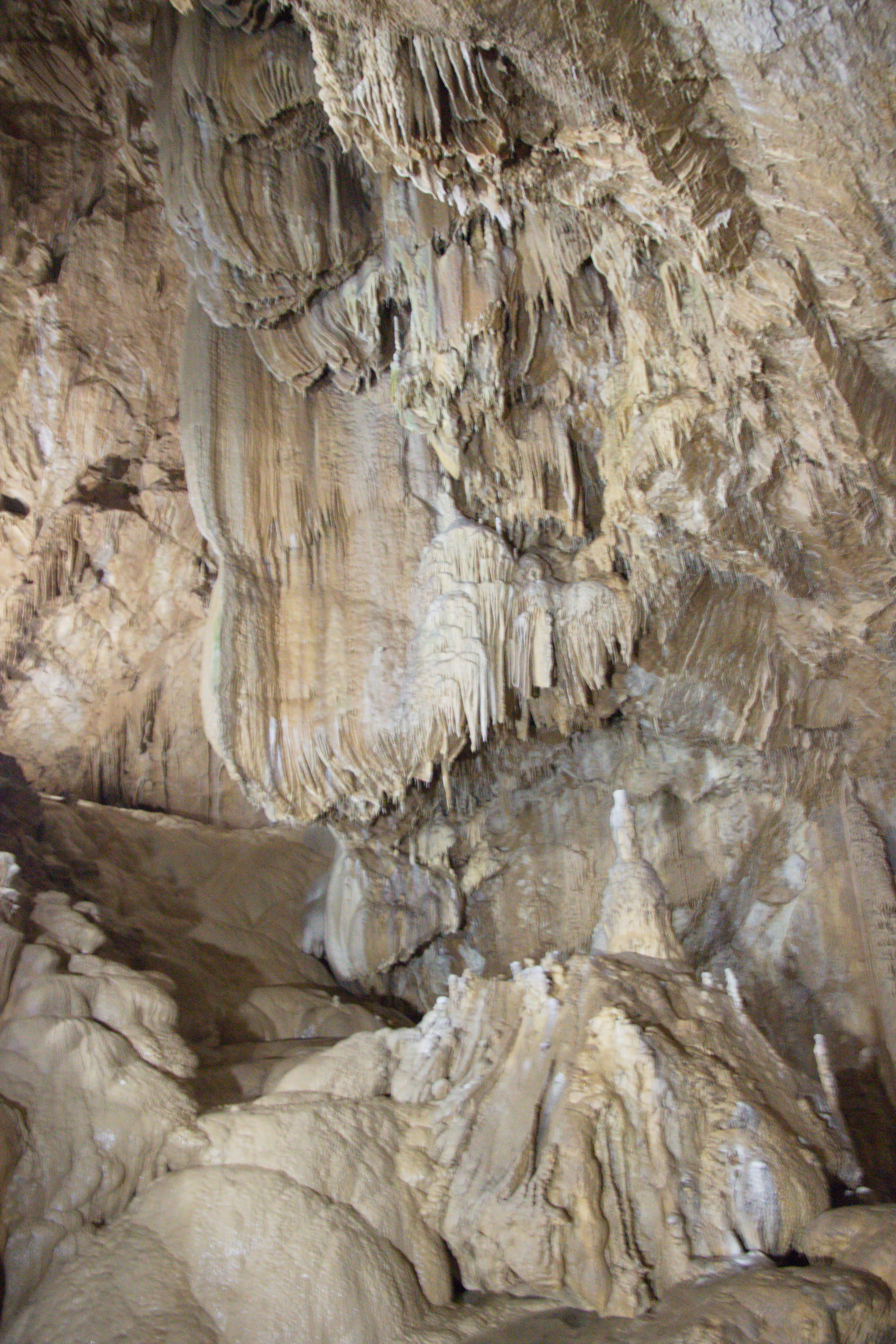 New Athos Cave. New Athos, Gudauta District, Abkhazia.